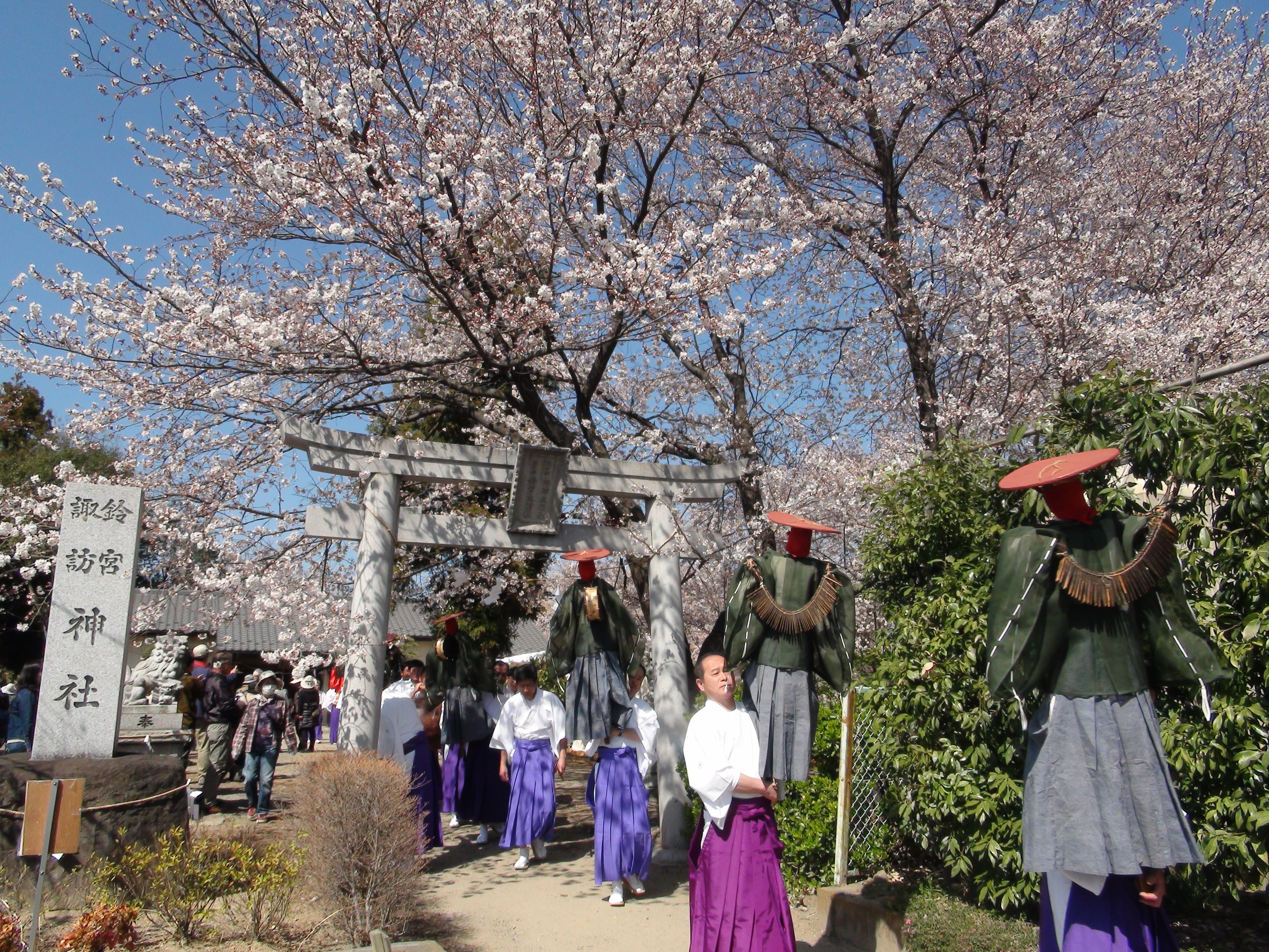 Suzumiya-Suwa Shrine Kofu Yamanashi